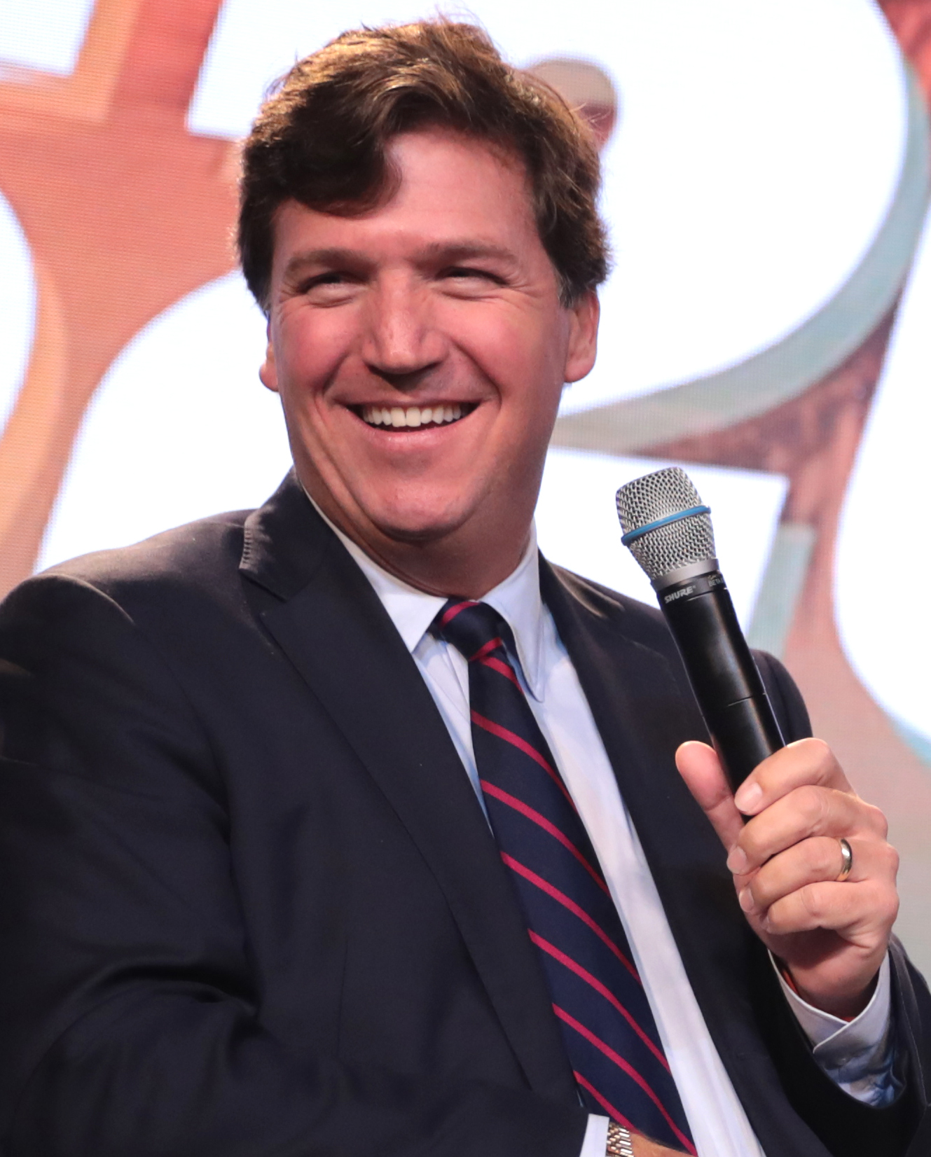 Tucker Carlson and Charlie Kirk speaking with attendees at the 2018 Student Action Summit hosted by Turning Point USA at the Palm Beach County Convention Center in West Palm Beach, Florida.